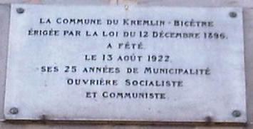 commemorative tablet on the town hall of the Kremlin-Bicêtre (France)